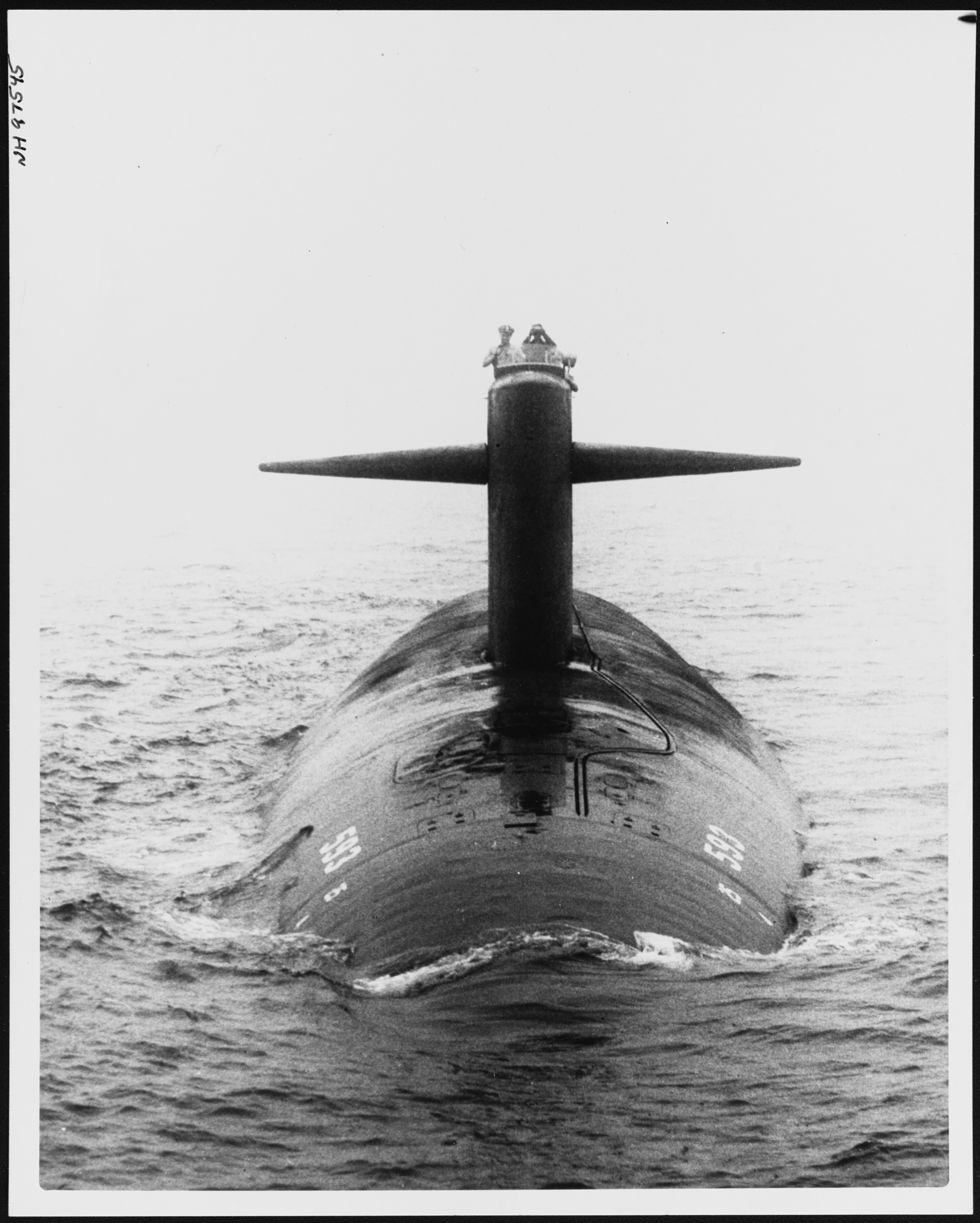 USS Thresher (SSN-593) Bow-on view, taken at sea on 24 July 1961. Official U.S. Navy Photograph, from the collections of the Naval History and Heritage Command.